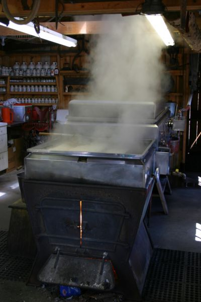 Description: Photo of a wood-fired maple syrup evaporator.